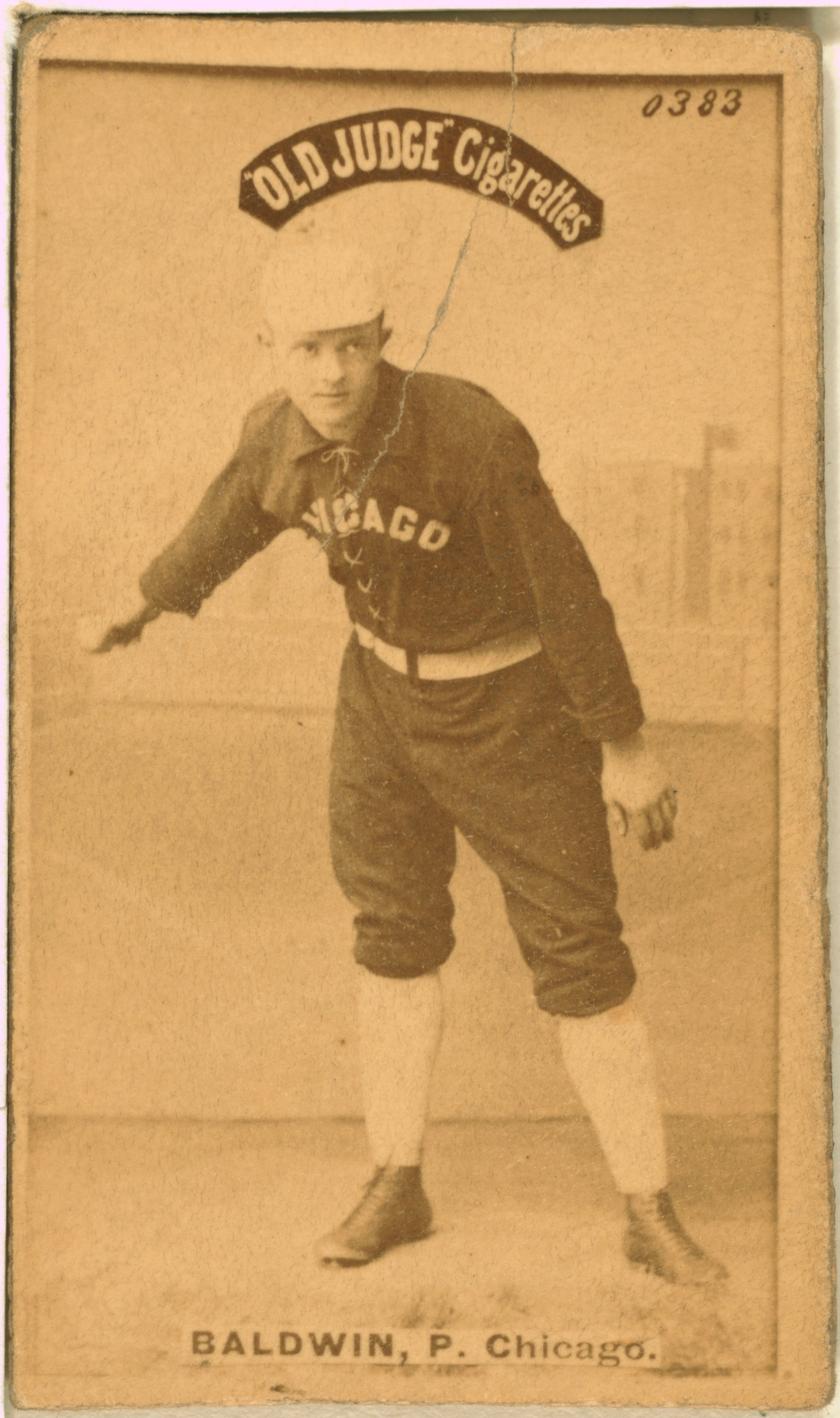 Tobacco card of former baseball player Mark Baldwin